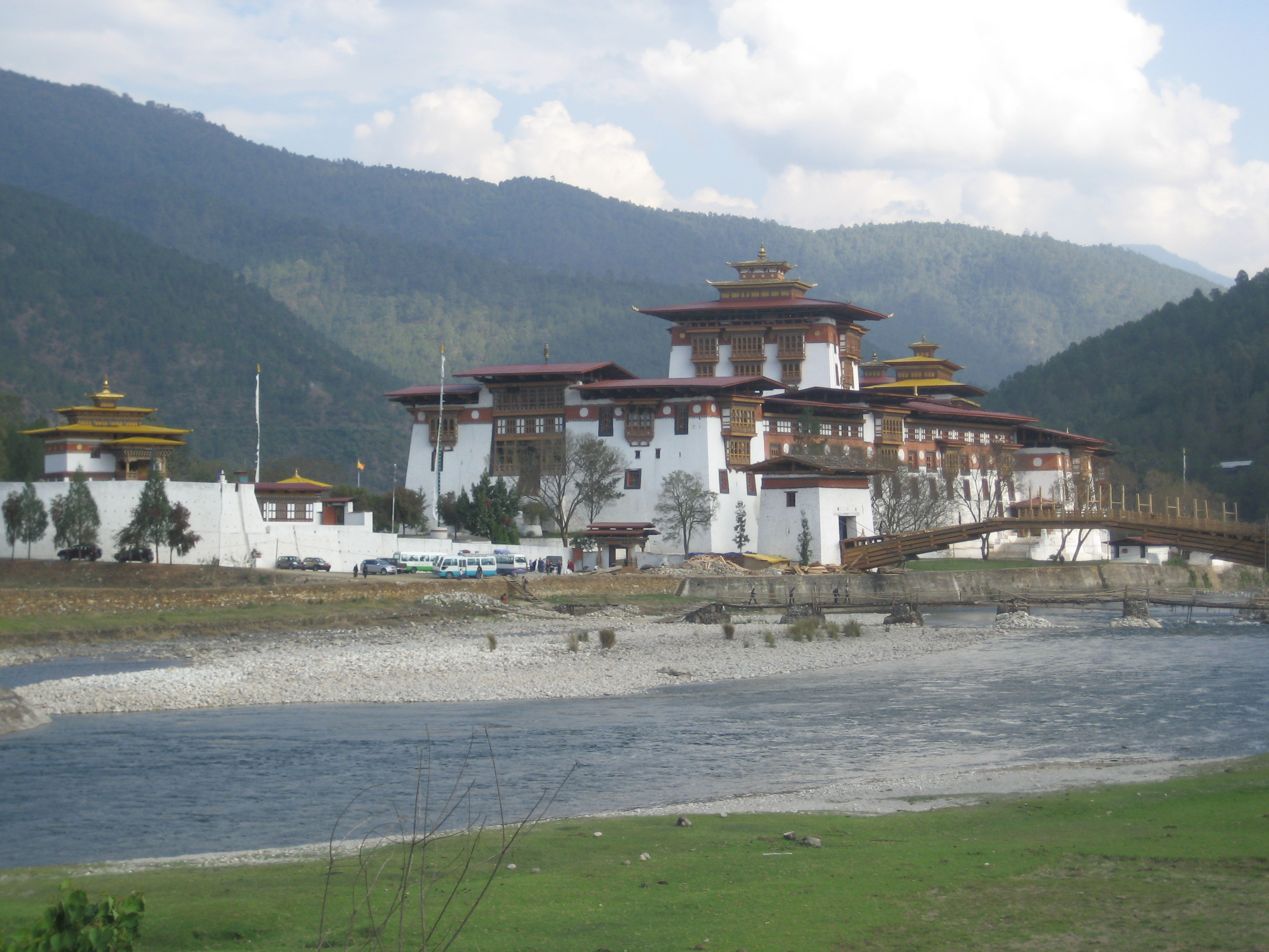 Punakha Dzong. traditional Bhutanese architecture, Punakha.